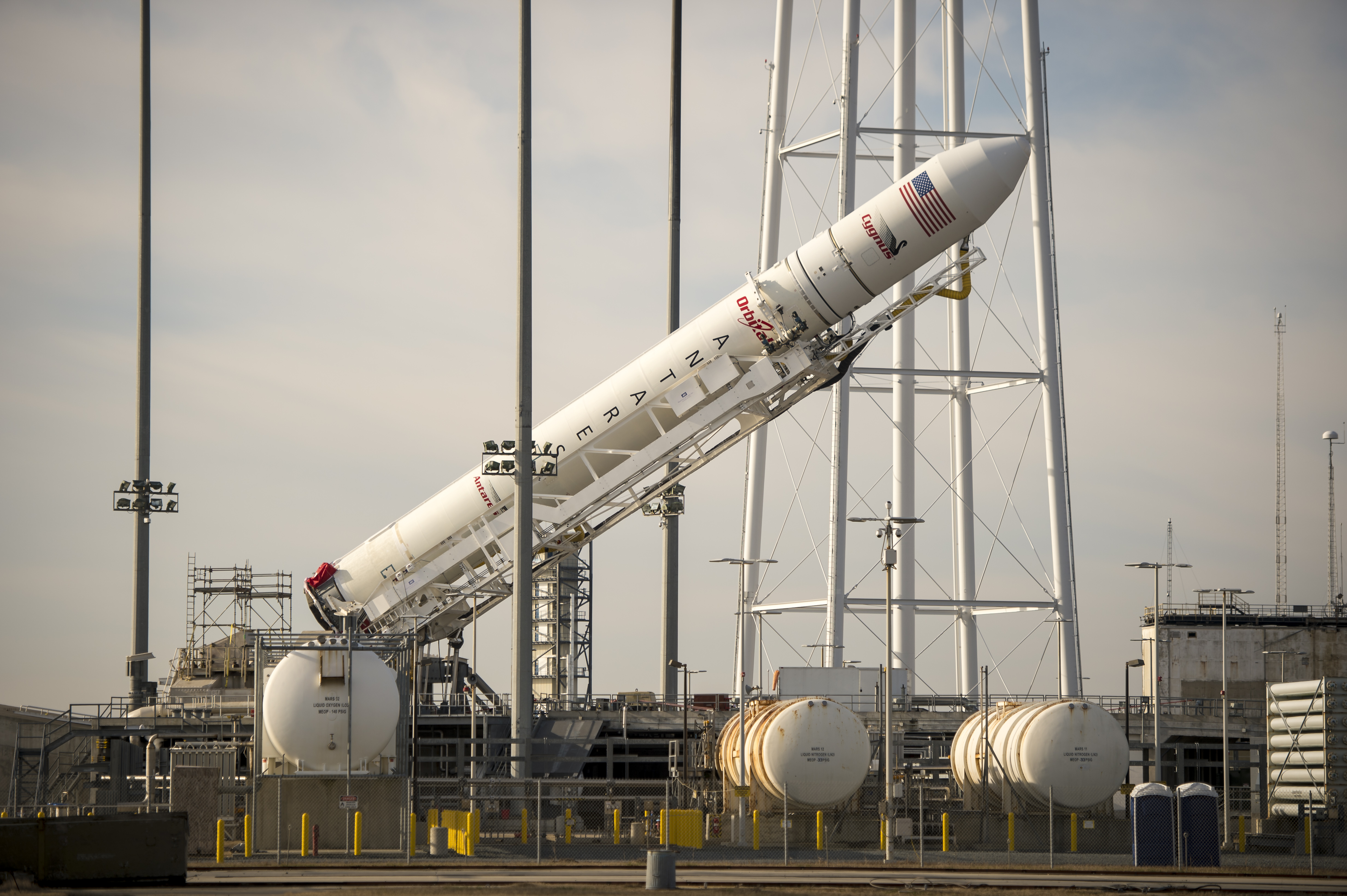 The Orbital Science Corporation Antares rocket is seen as it is raised into position at launch Pad-0A, Tuesday, December 17, 2013, at NASA's Wallops Flight Facility, Wallops Island, VA. The Antares will launch a Cygnus spacecraft on a cargo resupply mission to the International Space Station. The Orbital-1 mission is Orbital Sciences' first contracted cargo delivery flight to the space station for NASA. Among the cargo aboard Cygnus set to launch to the space station are science experiments, crew provisions, spare parts and other hardware. Launch is scheduled for 9:19 p.m. EST on Thursday, Dec. 19. Weather permitting, it may be widely visible along the east coast of the United States.